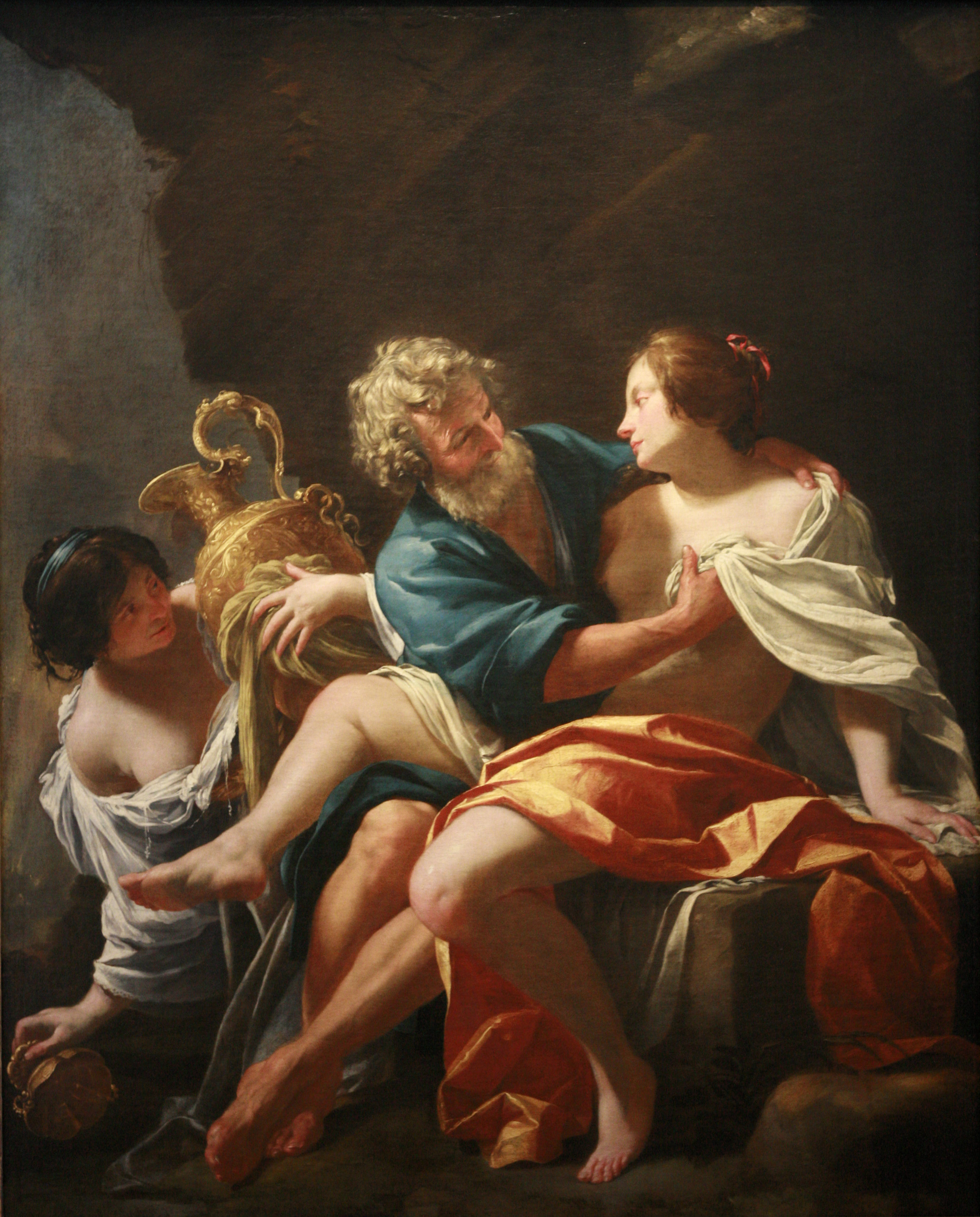 Loth and his daughters